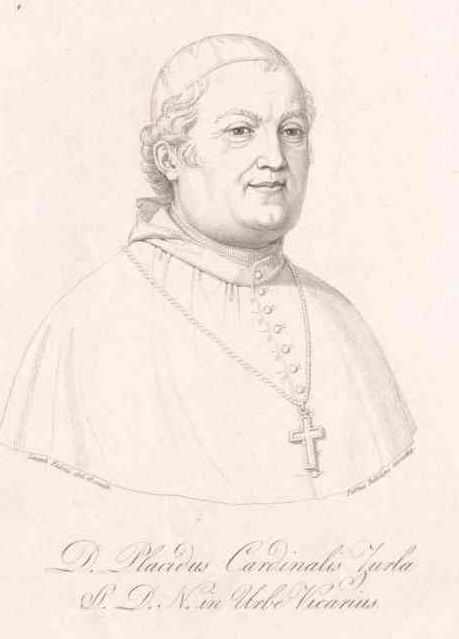 Cardinal Giacinto Placido Zurla OSBCam (1769-1834)